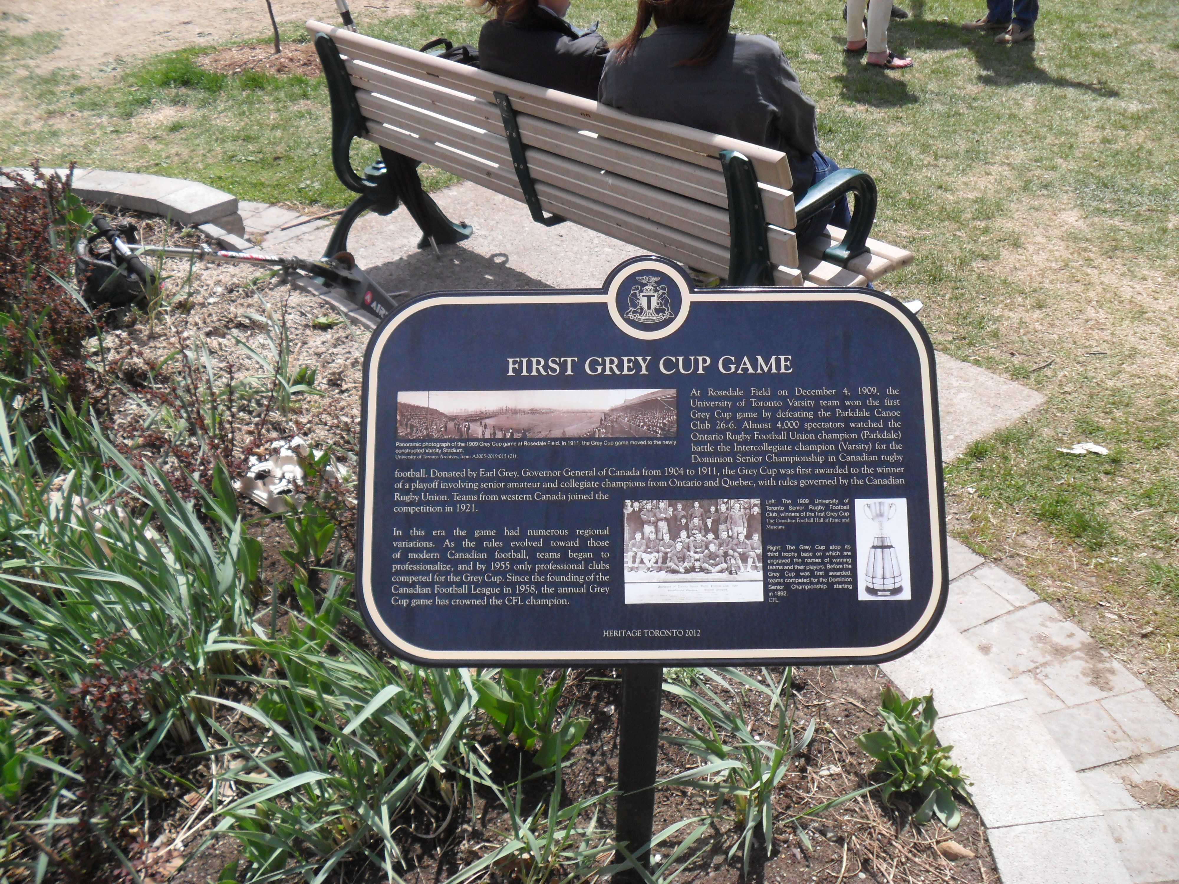 A plaque in Rosedale Park, Toronto, commemorating the first Grey Cup game.